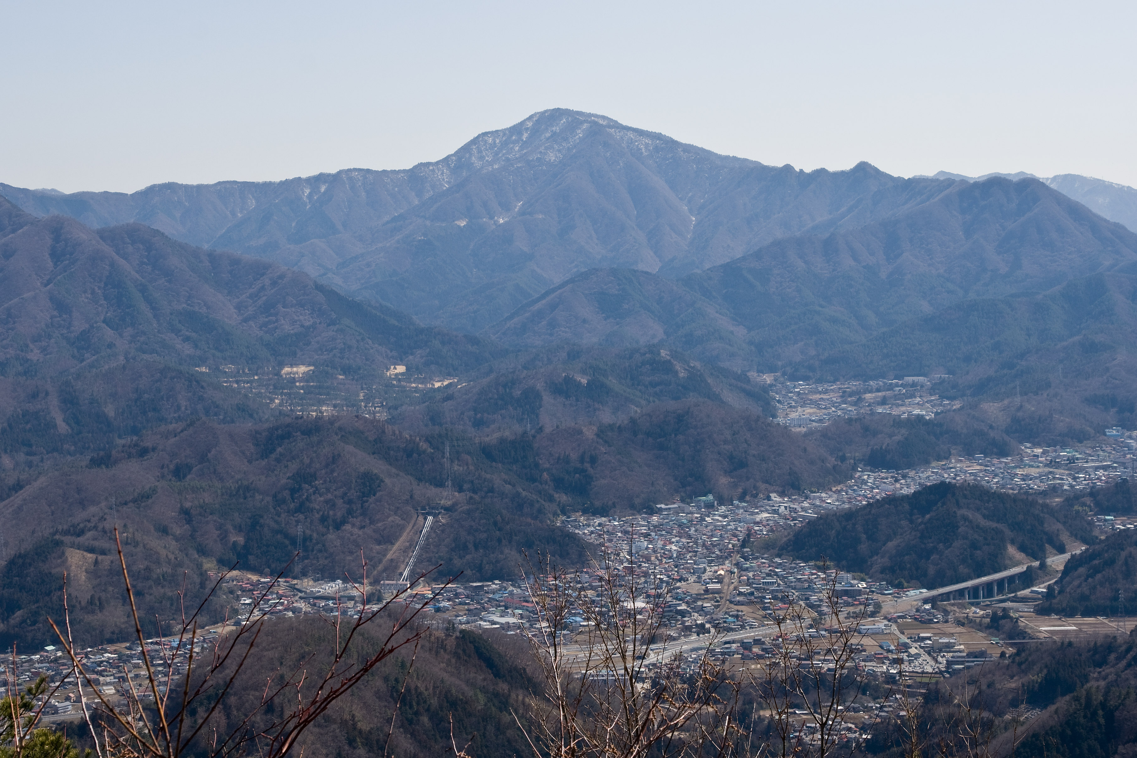 Mt.Mishotai as seen from Mt.Takagawa, Yamanashi Pref., Japan.